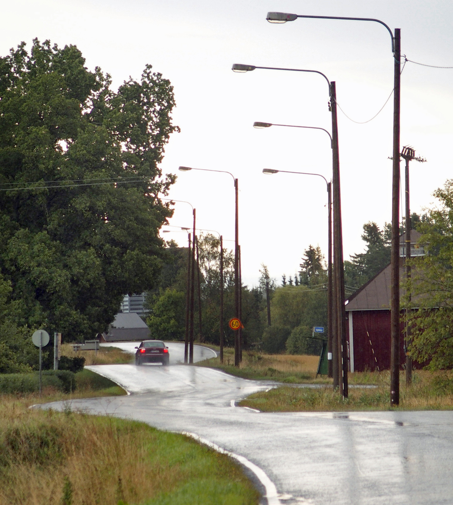 Seututie 222, road from Turku to Aura. Picture taken in Käetty village, Aura.